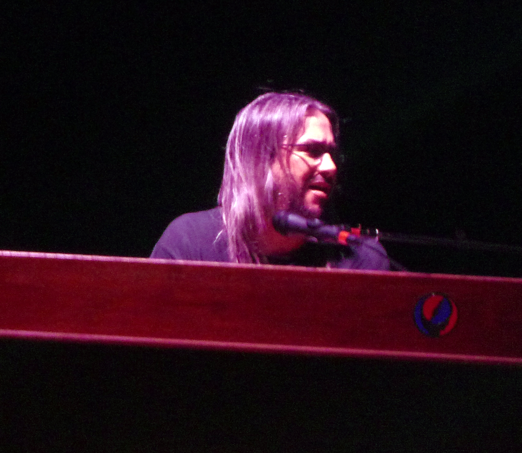 Jeff Chimenti with Furthur @ Mann Center in Philadelphia July 23, 2011